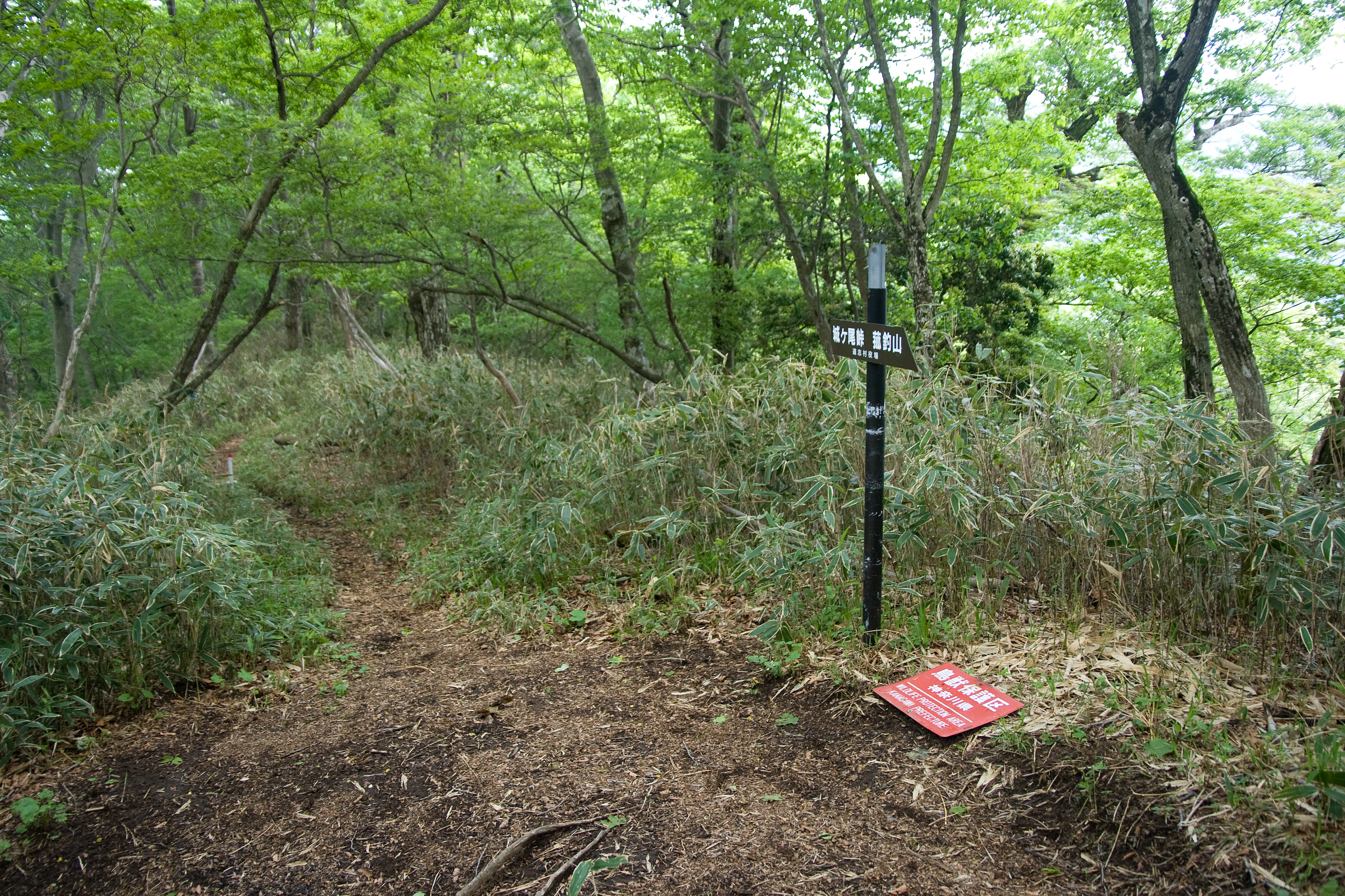 Bunasawanokkoshi Pass in Tanzawa Mountains, Kanagawa and Yamanashi Pref, Japan.